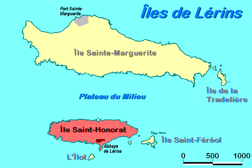 Location of Saint-Honorat within Lérins islands